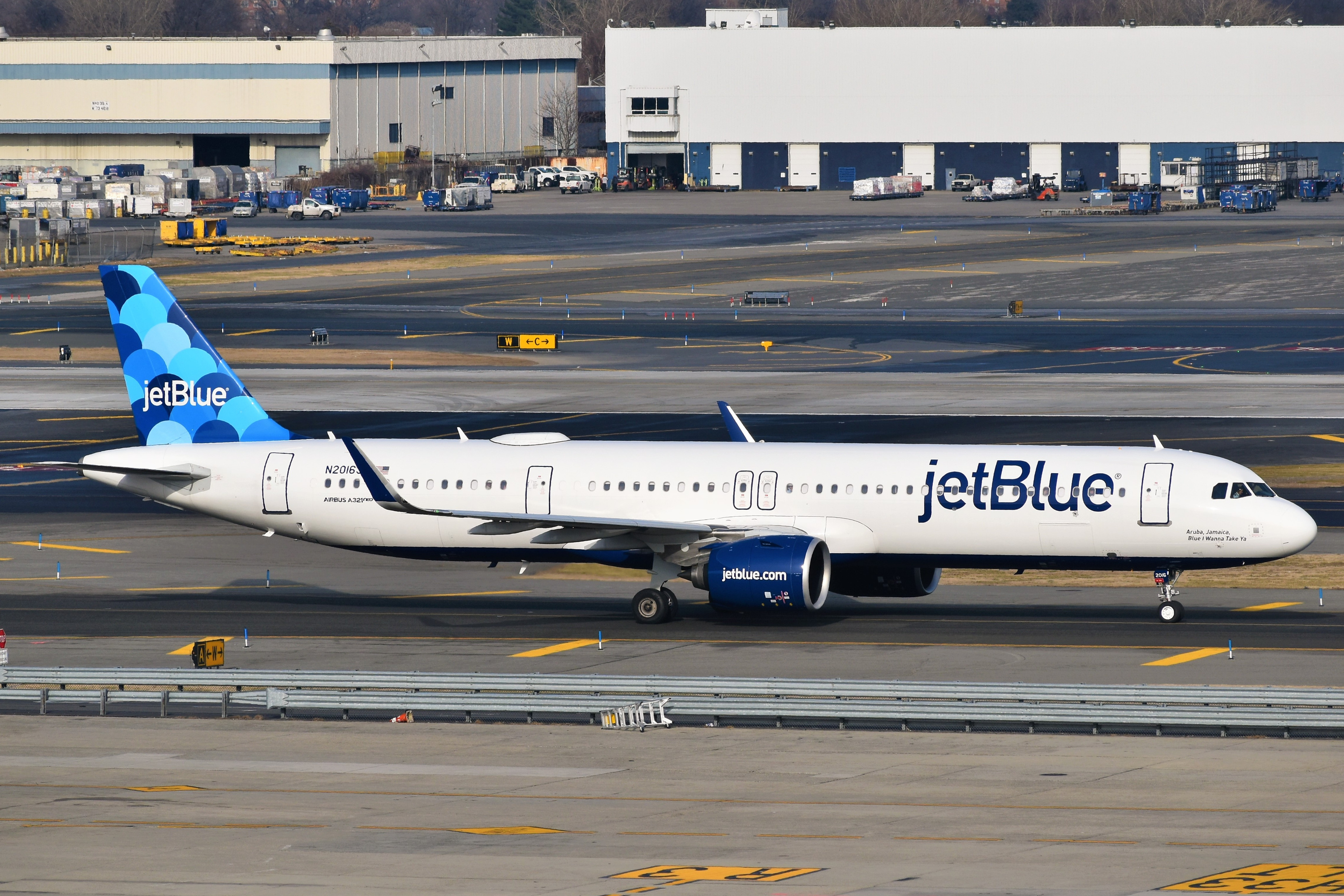 A JetBlue Airways Airbus A321neo is taxiing to its gate at JFK after landing from FLL.